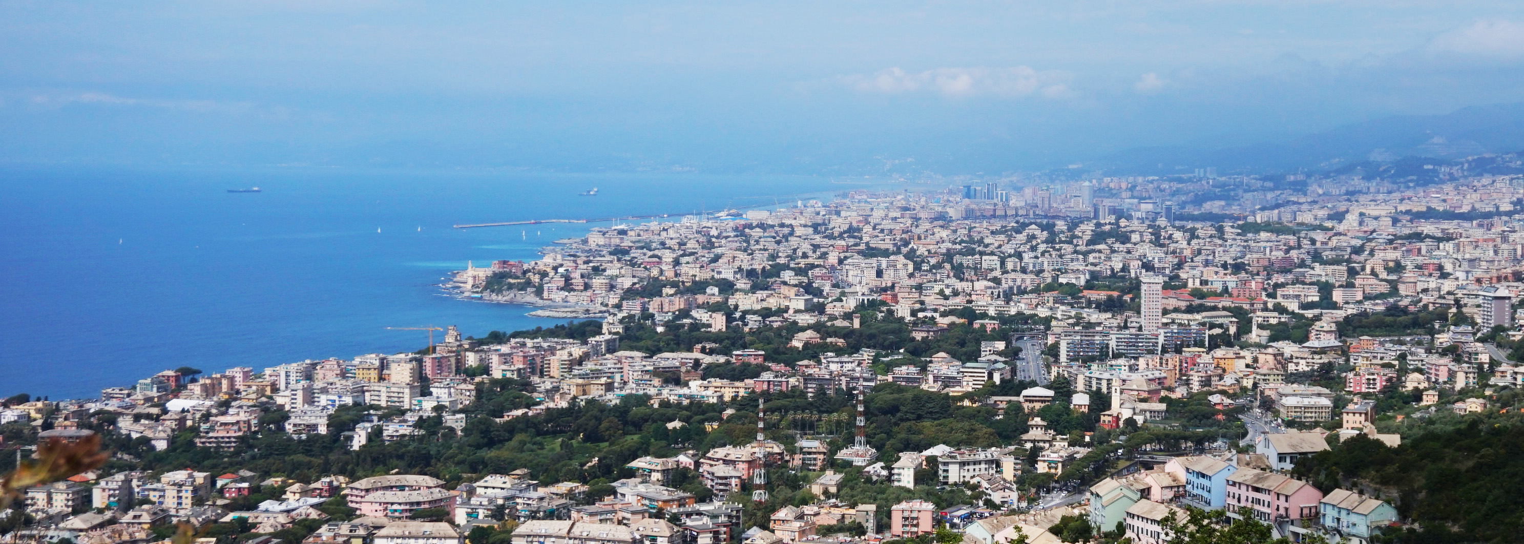 View of Genoa.